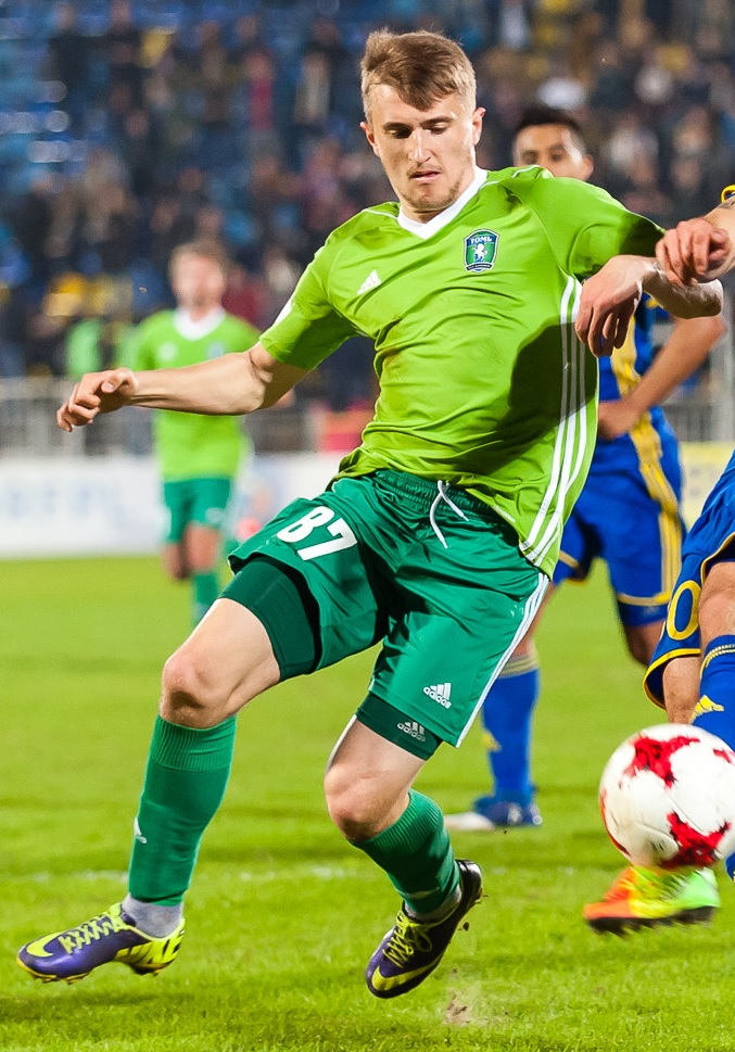 Dmitri Sasin playing for FC Tom Tomsk in a game against FC Rostov.